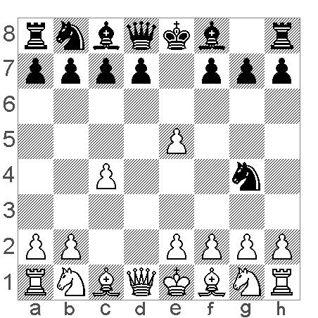 chess diagram Bernstein gambit Source: CBlight + my processing